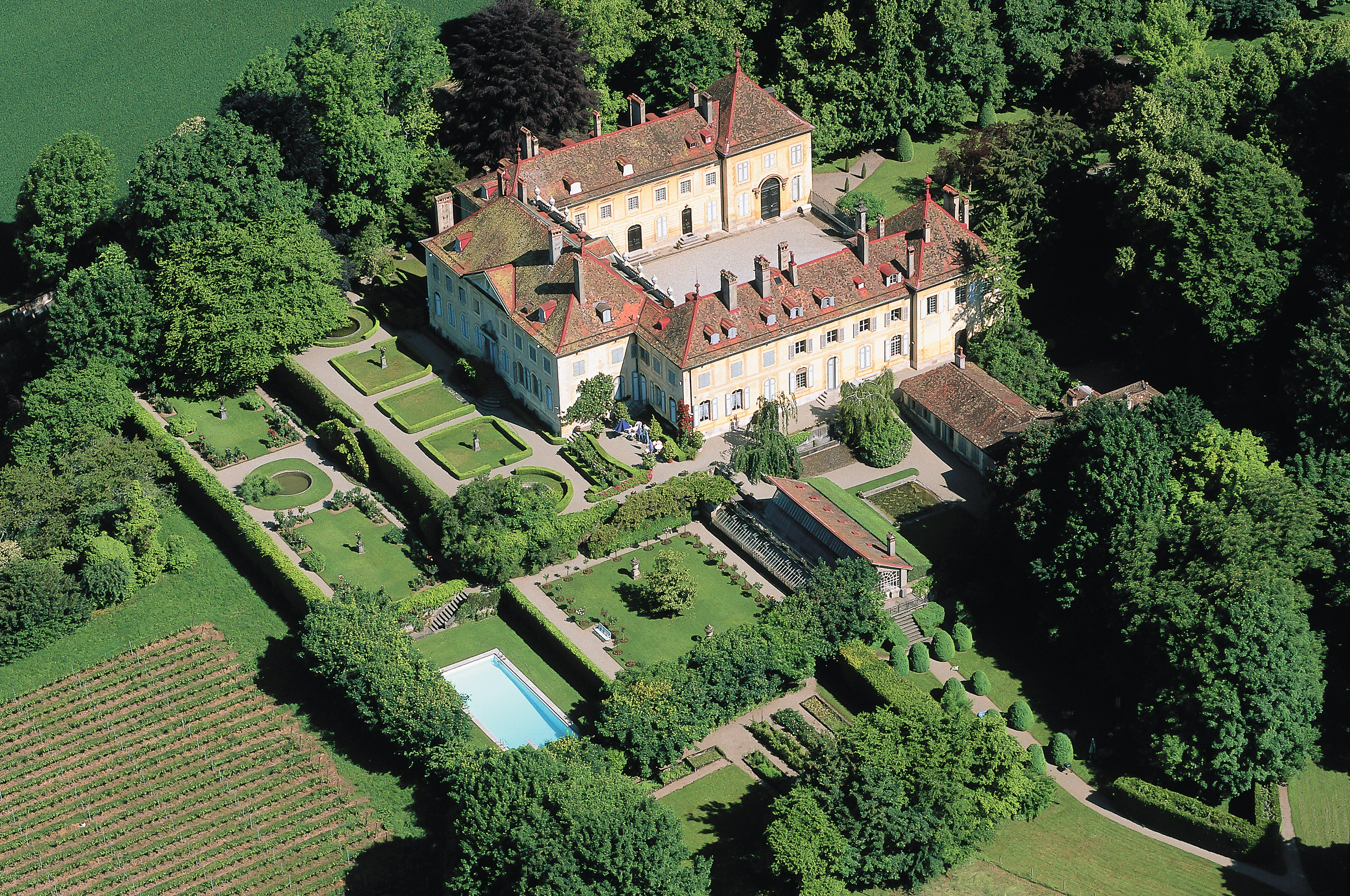 View of the Hauteville Manor